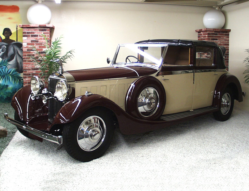 Hispano-Suiza J12 Berline Transformable, coachwork by Saoutchik (1935)